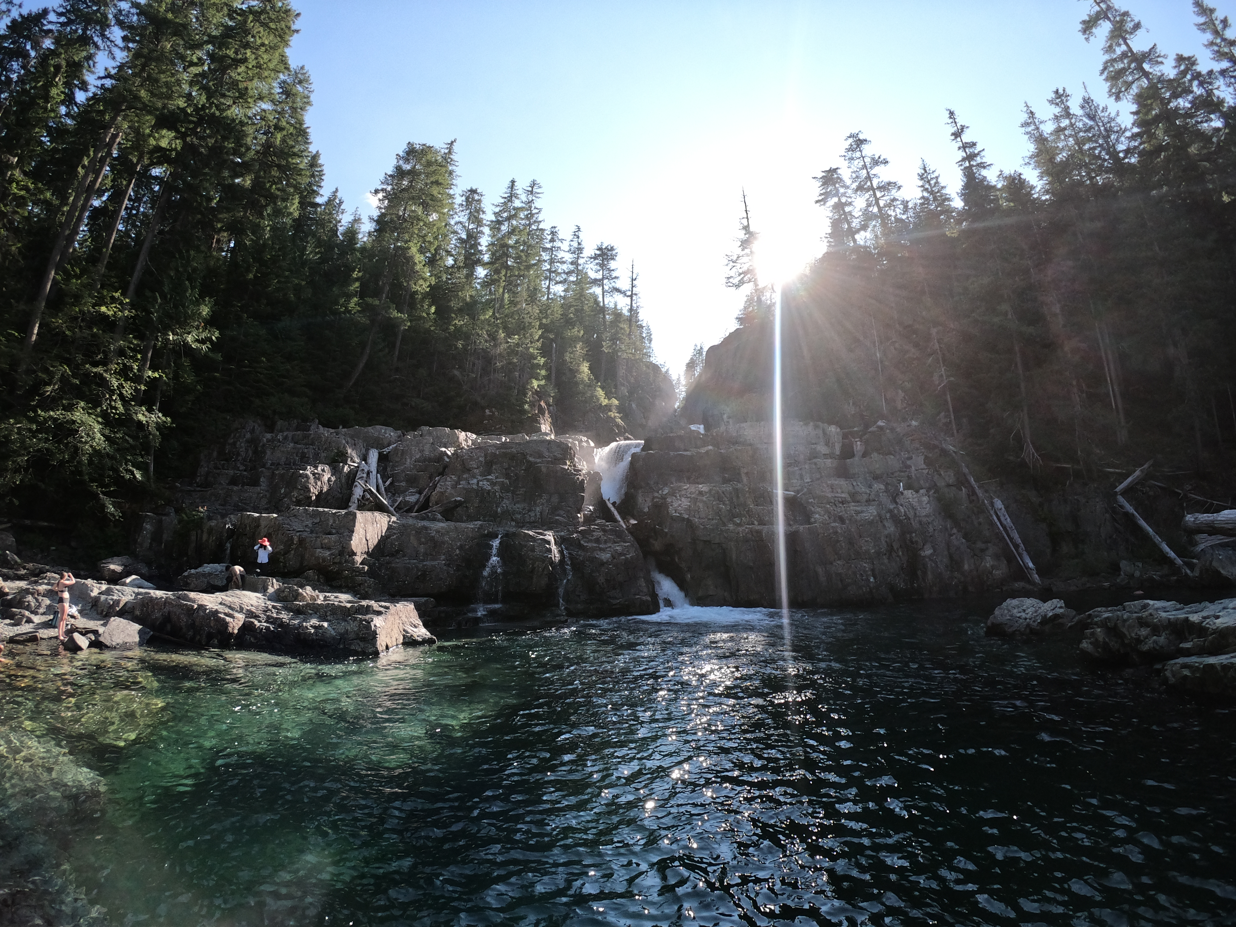 Lower Myra Falls waterfall and swimming hole in Strathcona-Westmin Provincial Park. This photo was taken early August, in the evening, and depicts the upper portion of the waterfall along with the swimming hole.